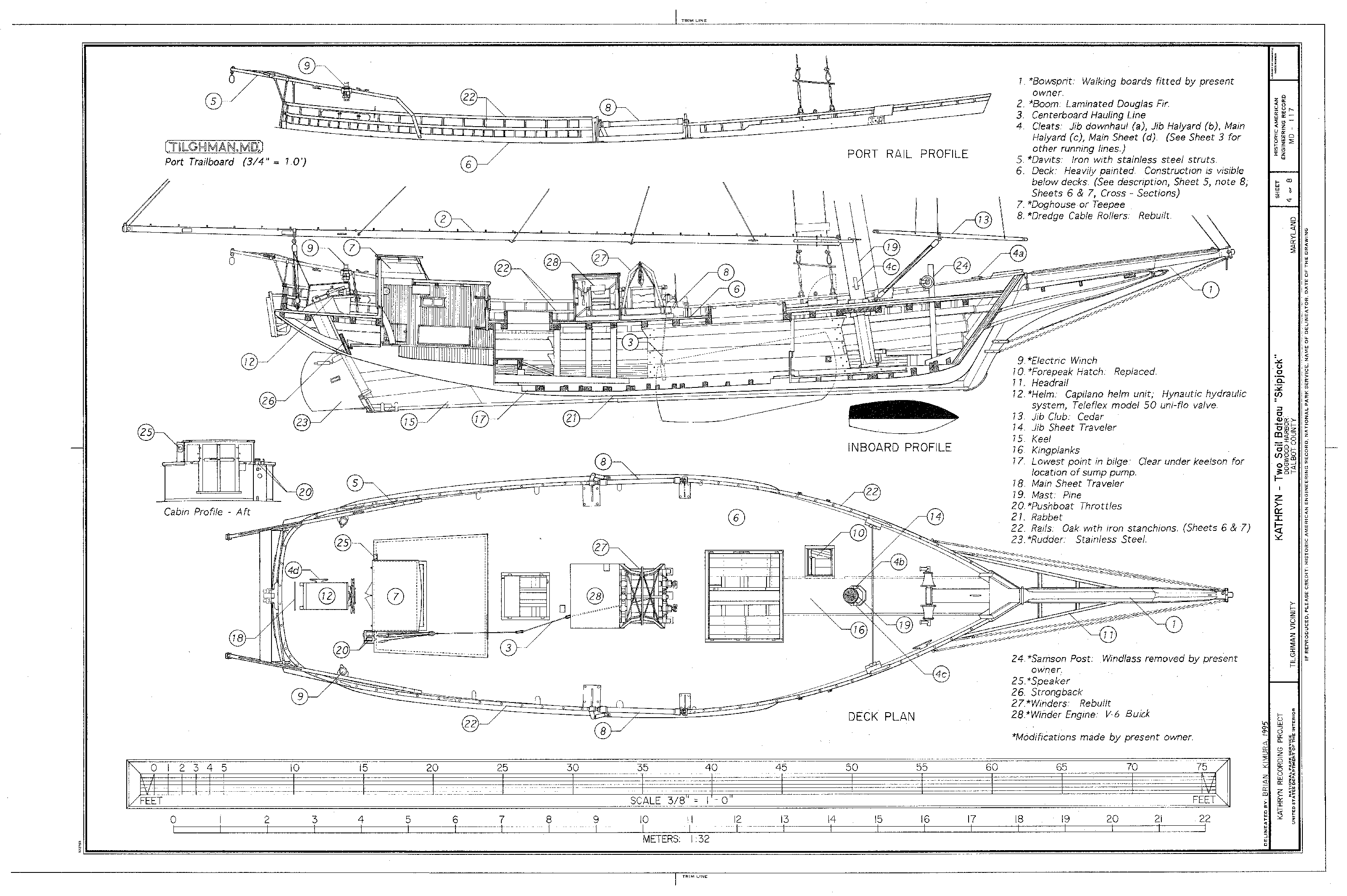 Deck plan and section of Chesapeake Bay skipjack Kathryn, Historic American Engineering Record